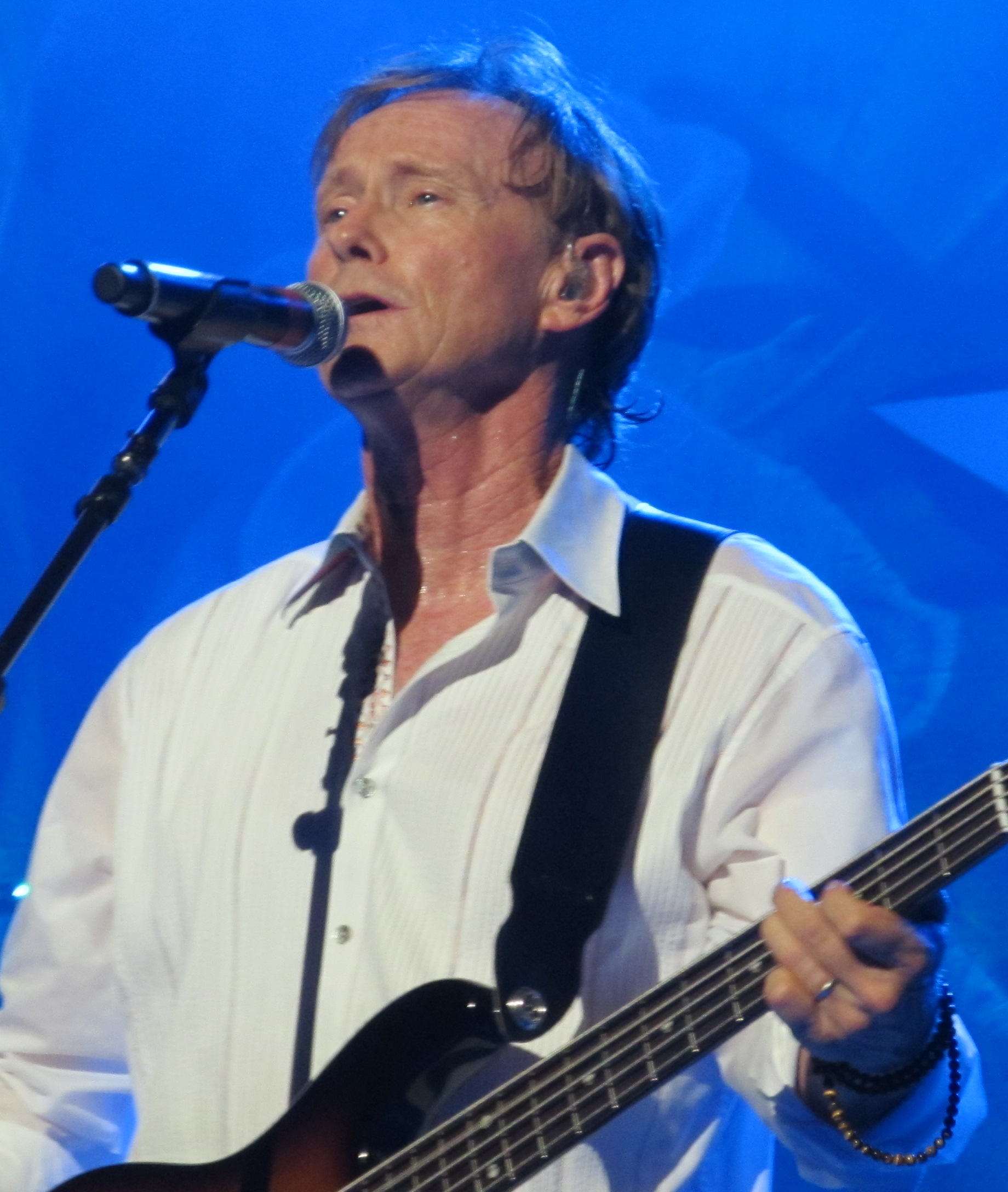 Richard Page concert in Paris June 26, 2011 : Ringo Starr and his All-Starr Band